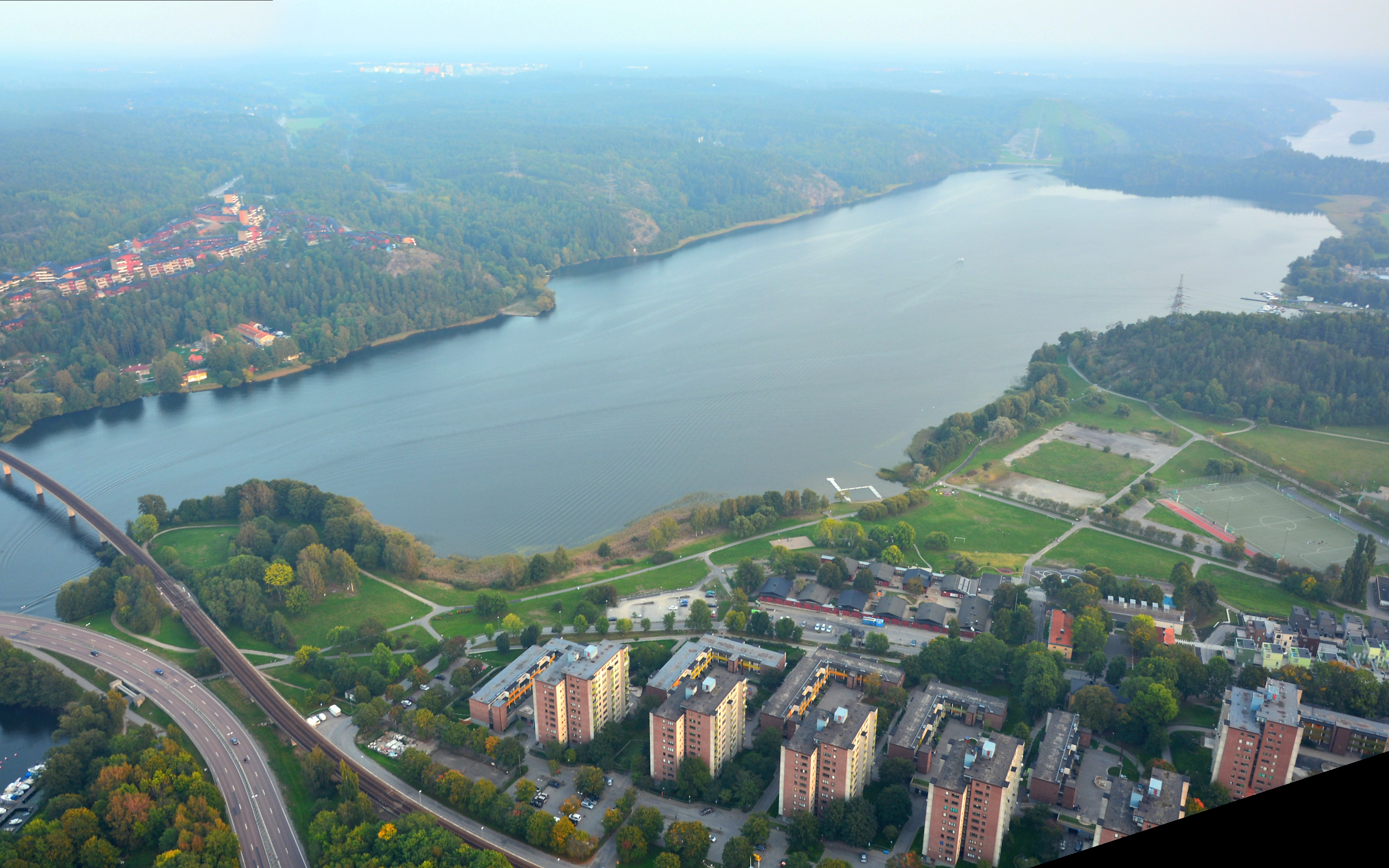 The lake Albysjön in Huddinge and Botkyrka municipalities, southern Stockholm, Sweden.